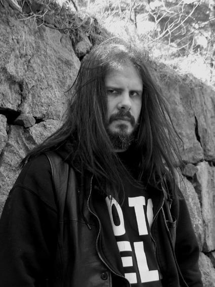 david parland guitarist of dark funeral necrophobic etc for gods fucking sake!!!!!!!!!!!!